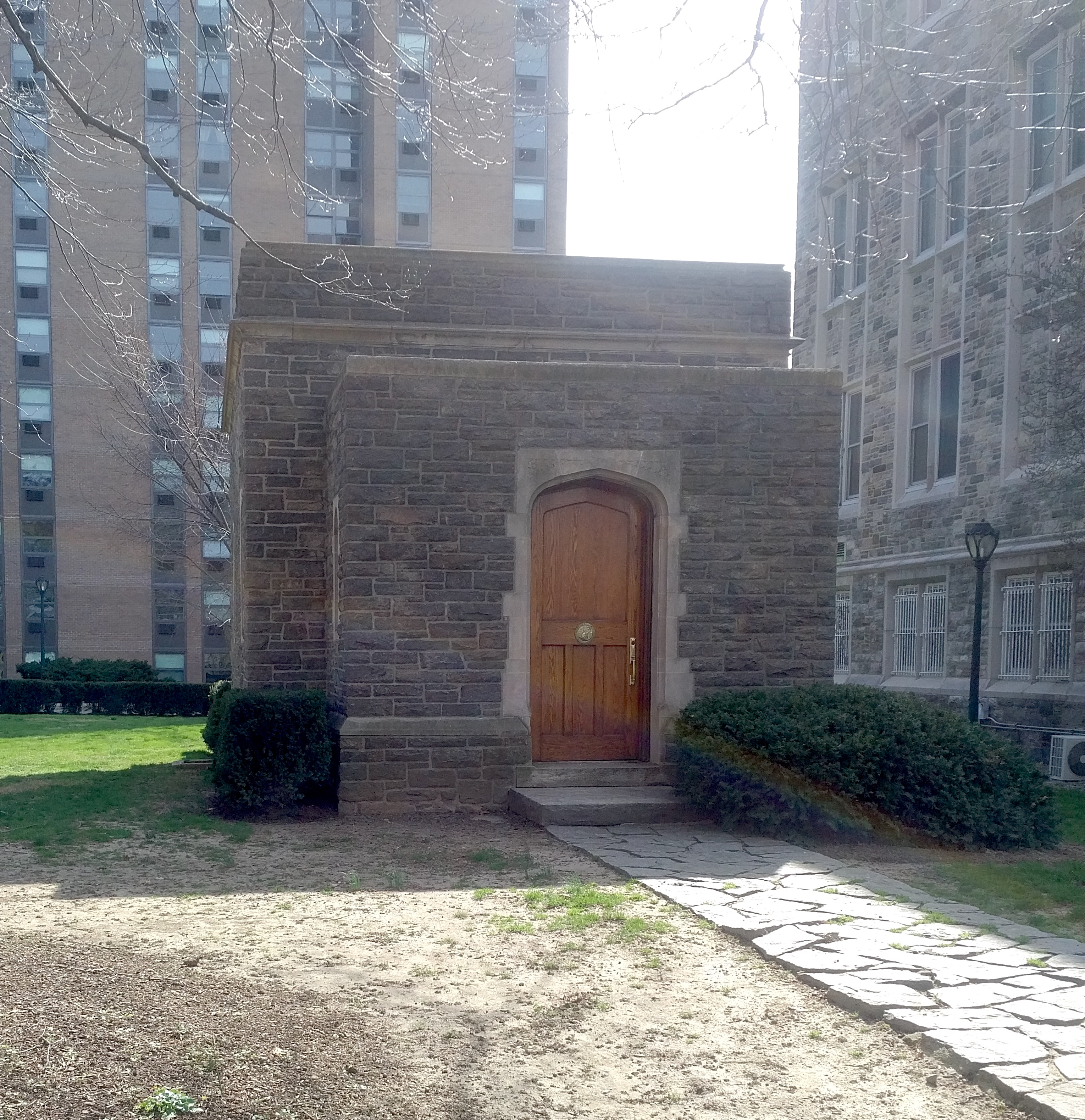 Front door of William Spain Seismic Observatory, Fordham University